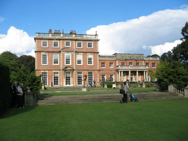 Newby Hall, near to Newby, North Yorkshire